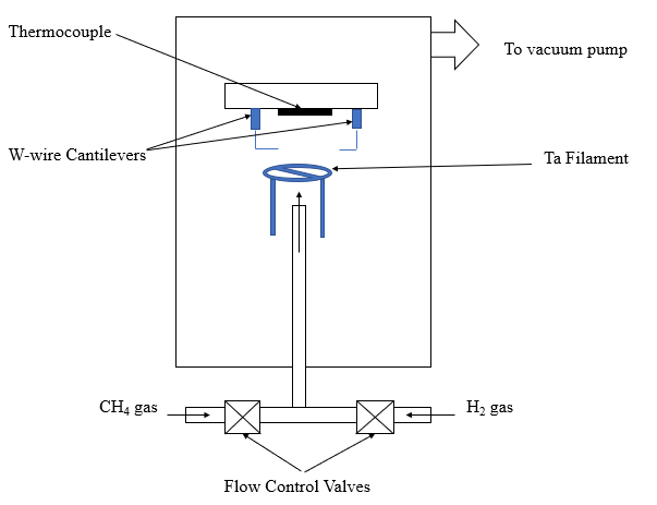 Chemical Vapor Depostion